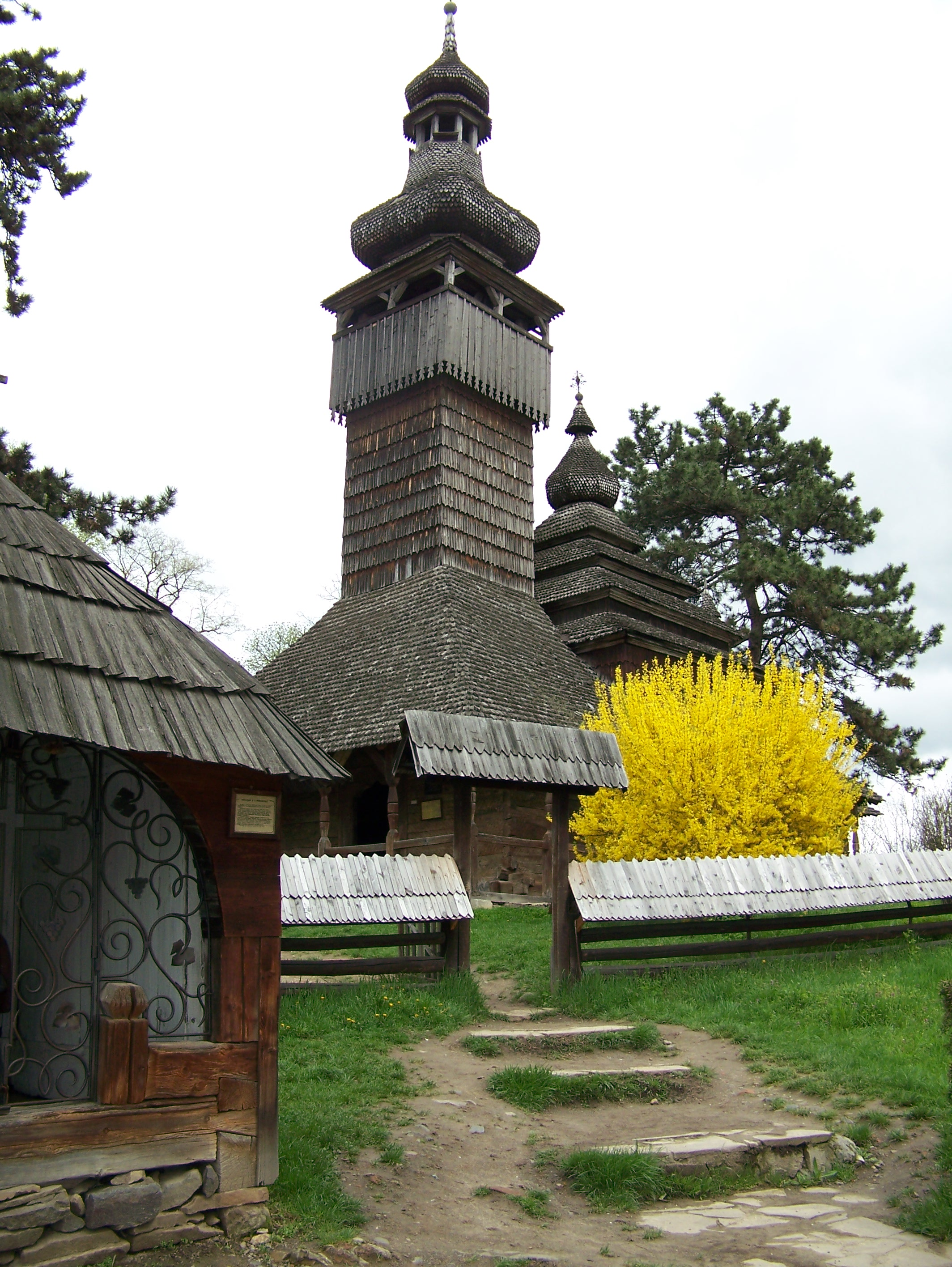 Uzhhorod, Church of the Holy Archangel Michael. Originally located at Shelestovo near Mukachevo, relocated to the Museum of Folk Architecture in Uzhhorod in 1974. Built 1777, greek-catholic